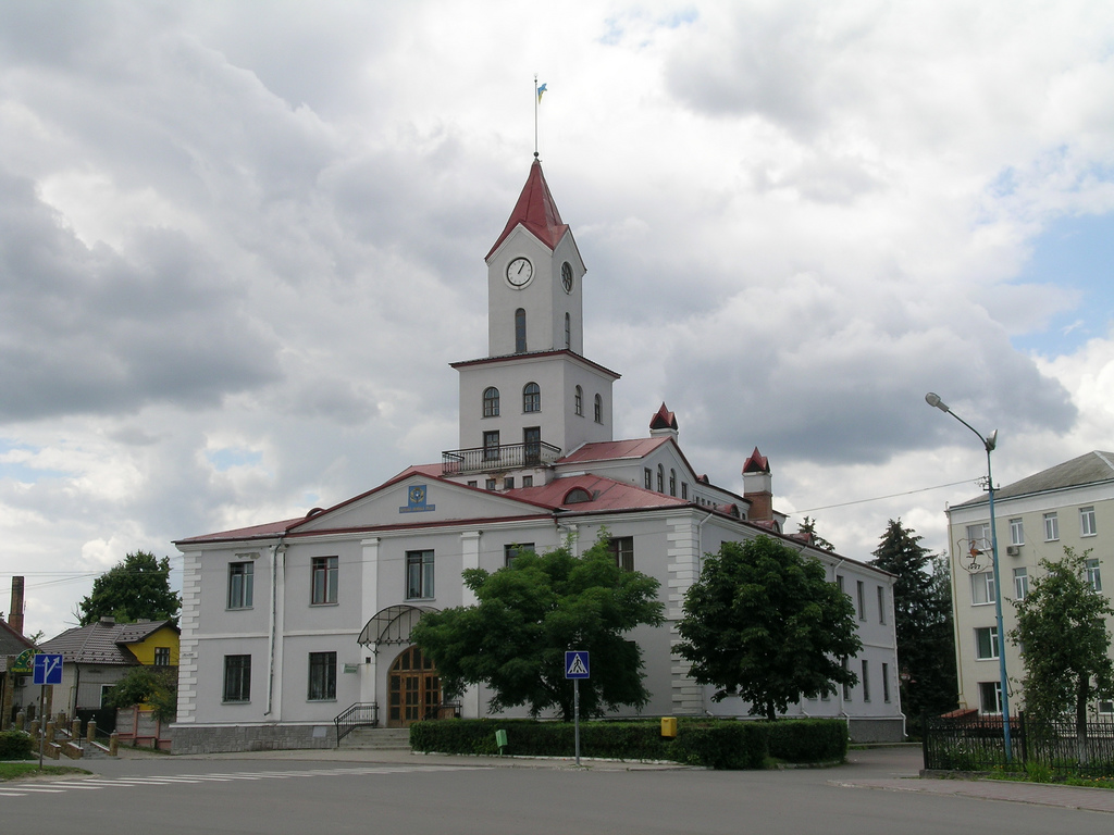 The building of Busk City Council.